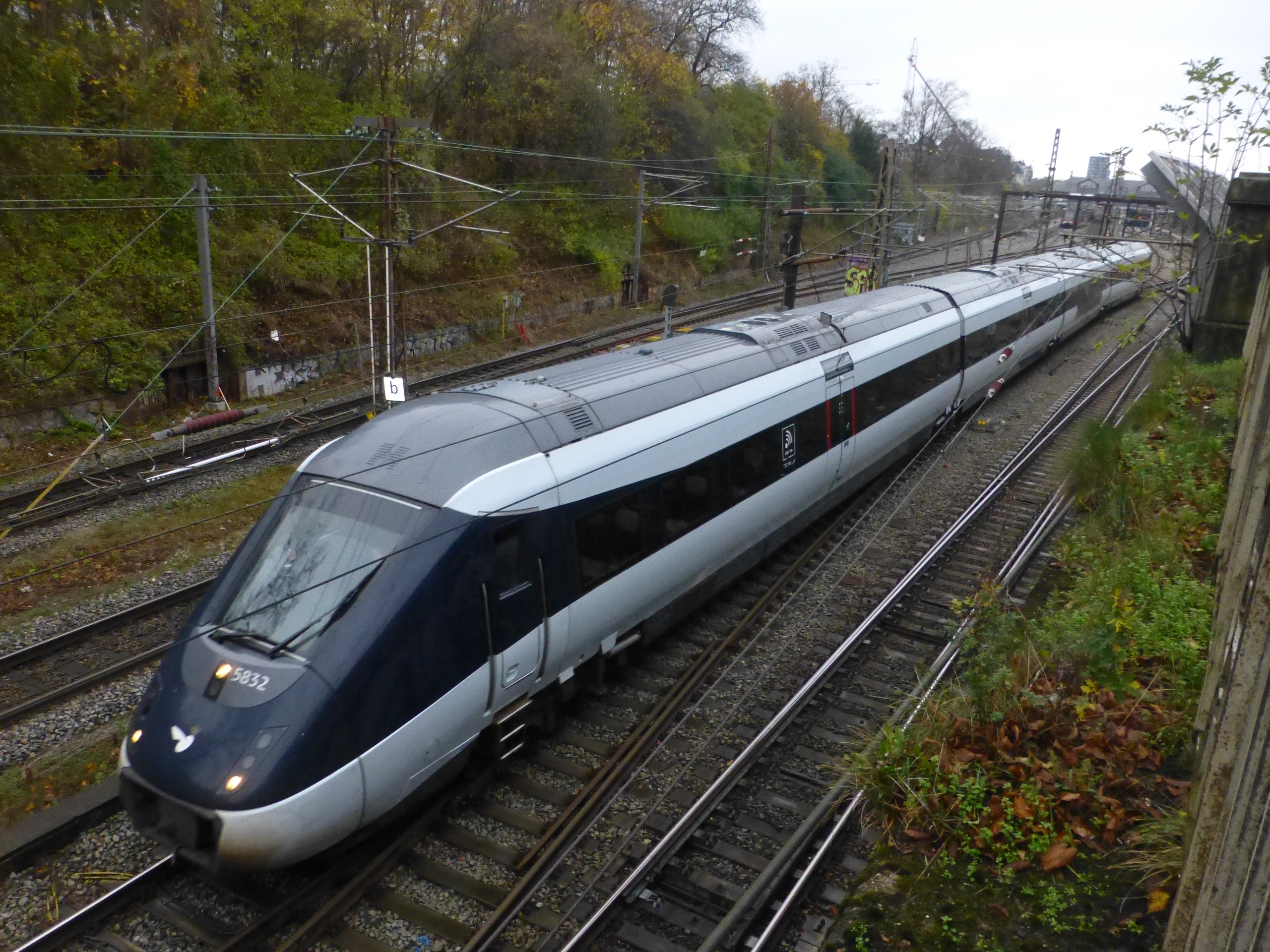 Diesel multiple unit IC4 32 leaving Østerport Station in Copenhagen.